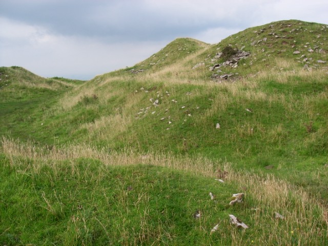 Castell Dinas The mounds on the right are the remains of what appears to have been the central keep of this former fortress. They now form the highest point of the hill at around 1500ft above sea level. The spot affords magnificent views to the Wye valley to the north and down that of the Rhiangoll to the south - something which would presumably have been of some interest to its one-time occupants. Views east along the 'Dragon's Back' to the high point of the Black Mountains at Waun Fach and west to Mynydd Troed are another good reason for making the short ascent to this summit.